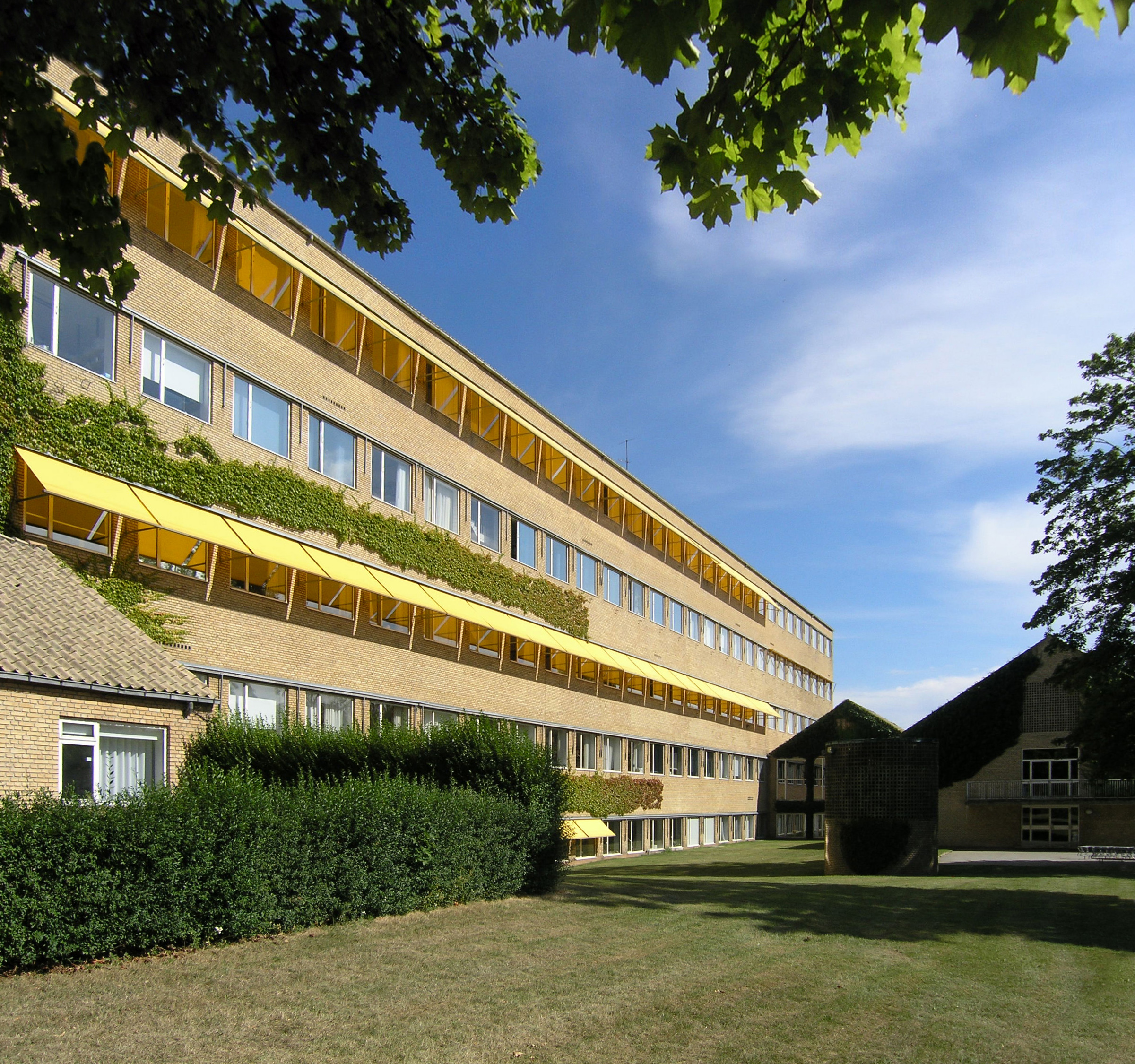 The Bartholin Building, Aarhus University. This building at the central campus was built in the years 1971-74, in accordance with the original architectural design of Aarhus University from 1931. architects: kay fisker, c.f.møller, povl stegmann landscape planning: c.th.sørensen